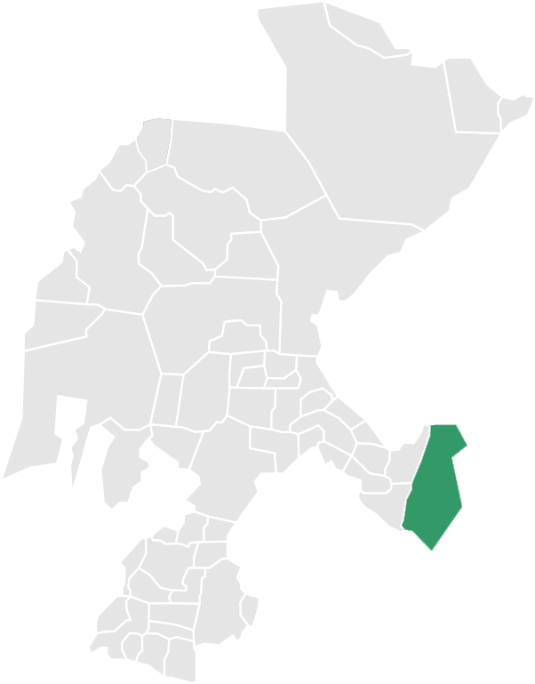 Map of the Municipality of Pinos in Zacatecas, México.